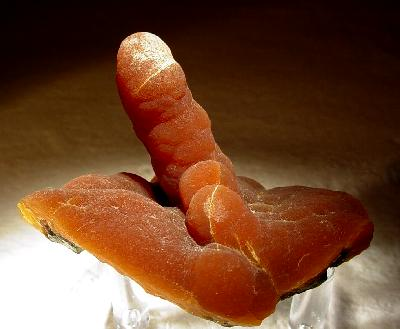 Aragonite Locality: Carter County, Montana Size: small cabinet, 6.7 x 5.5 x 5.2 cm Aragonite These attractive specimens made quite a splash in the mid 80's, and this is one of the better ones I have seen because it is symmetrical and unusually fat. The large single stalactite, along with the base, have good deep-orange color and lovely translucency under strong light. This would make a good addition for the carbonate collector, or someone with an appreciation for the aesthetic and unusual.